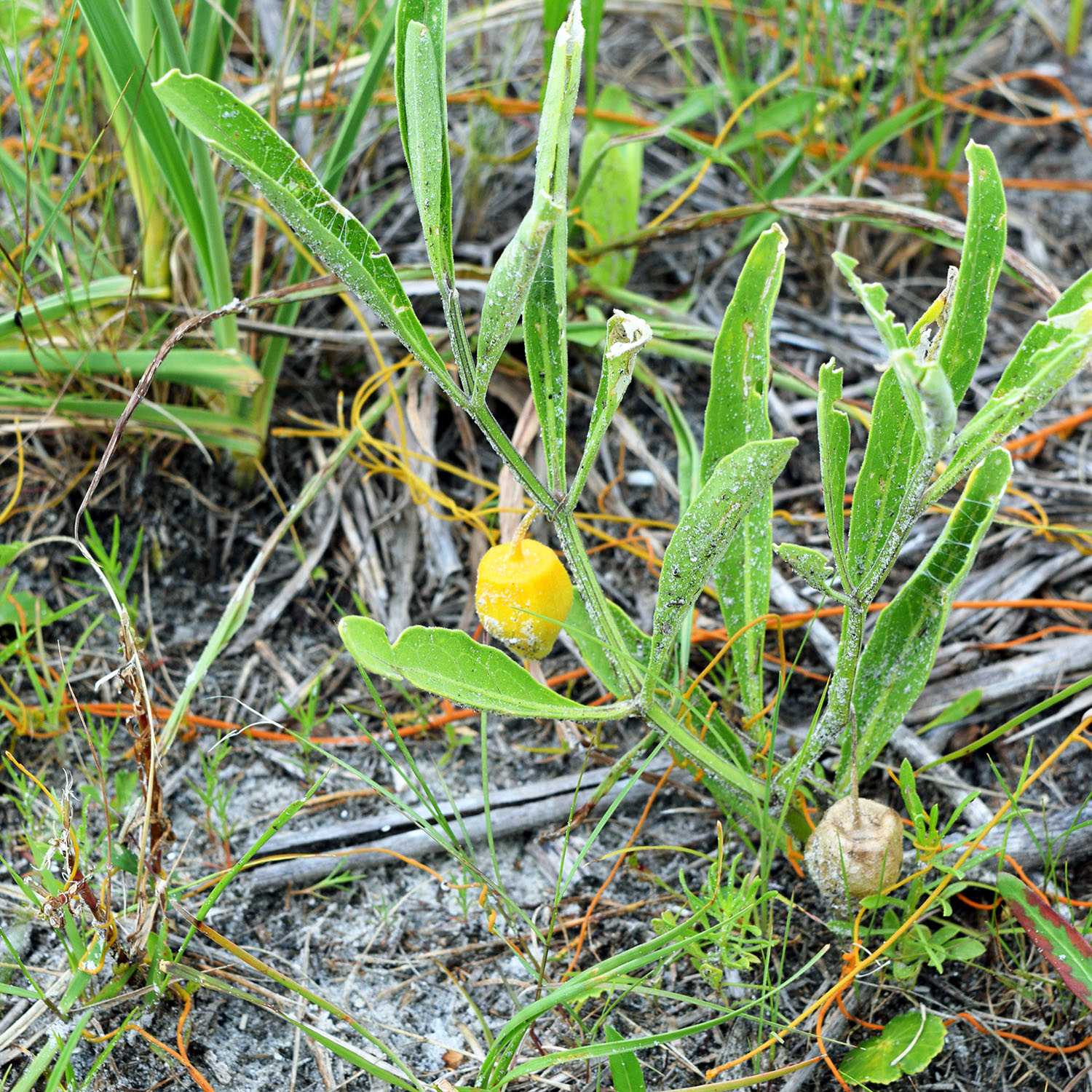 Plant growing along path with yellow fruit